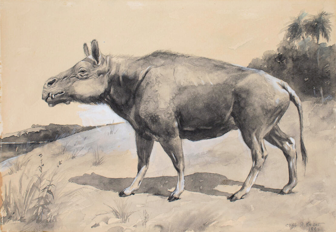 Entelodon (Elotherium), the first commisioned restoration of an extinct animal by Charles R. Knight.[1]